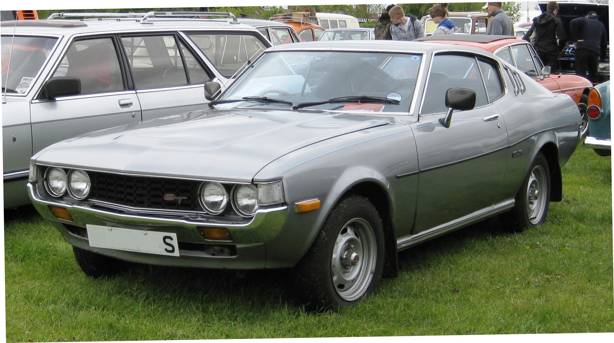 Toyota Celica ST liftback "Mustang-like" According to UK tax office data this car was first registered November 1977 in the English administrative county of Middlesex, manufactured 1977 and is powered by a 1968cc petrol engine